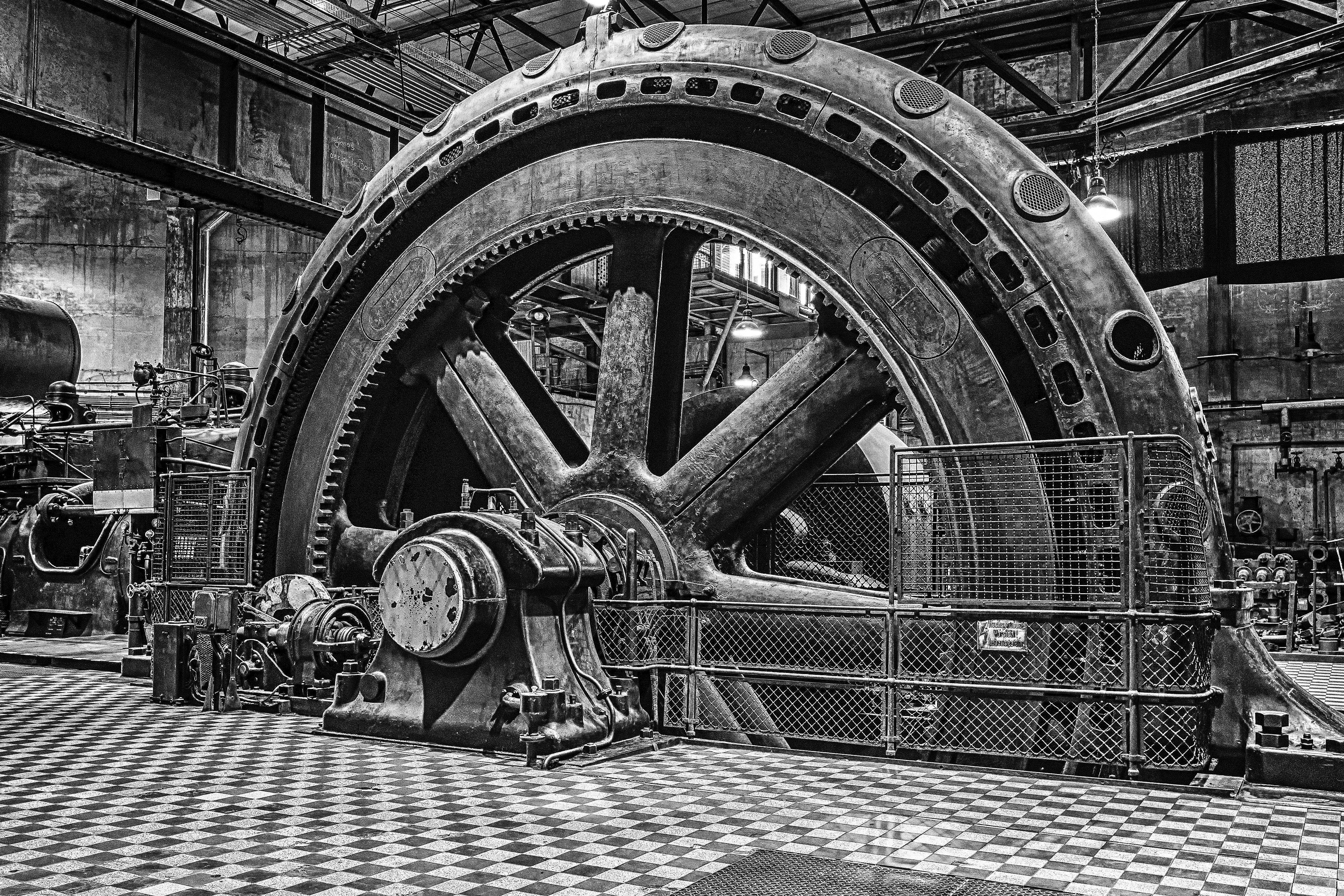 Blowing engine in the Blasting Hall of Völklingen Ironworks